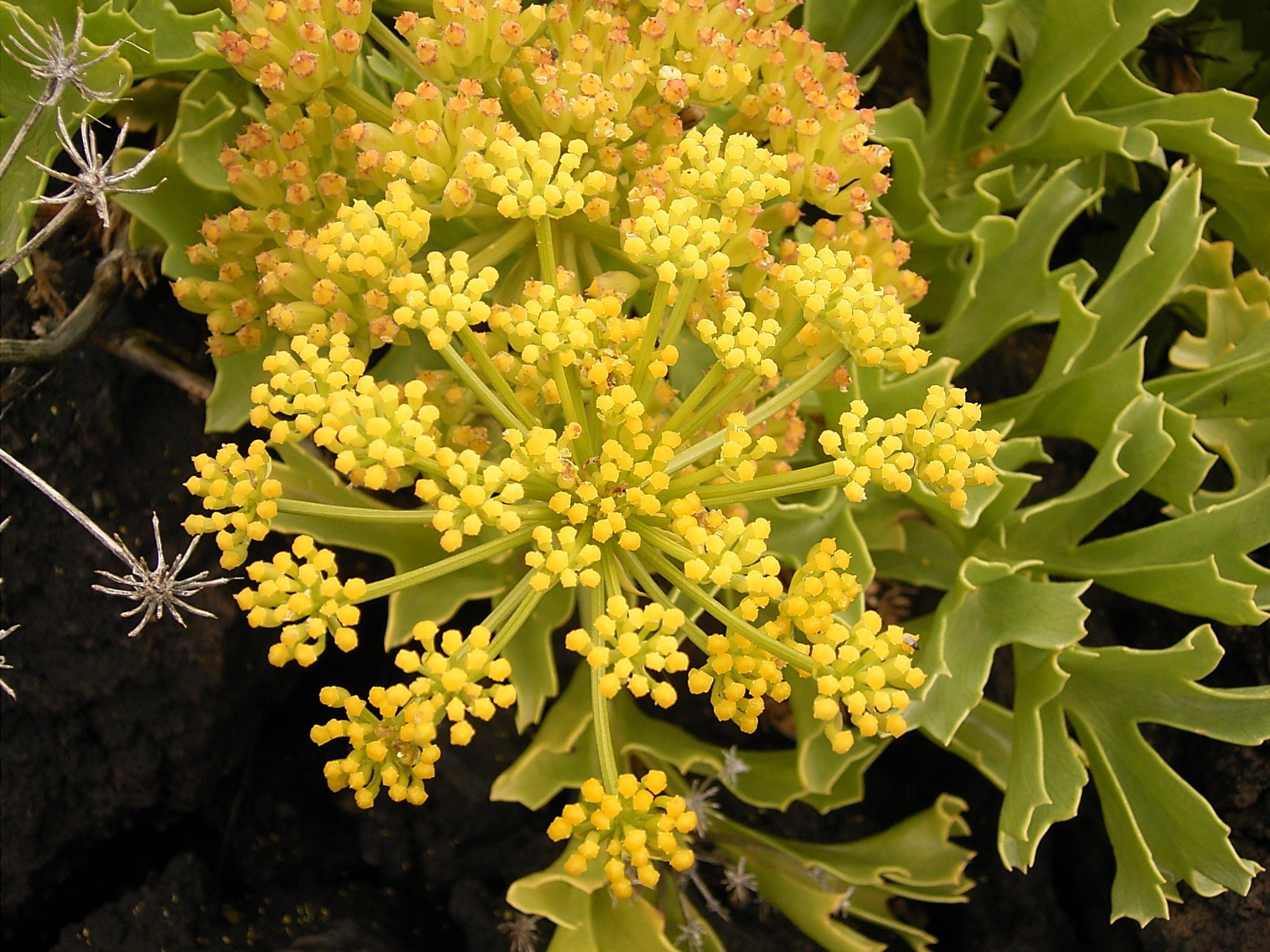 Astydamia latifolia growing at Los Cancajos, La Palma, Canary Islands